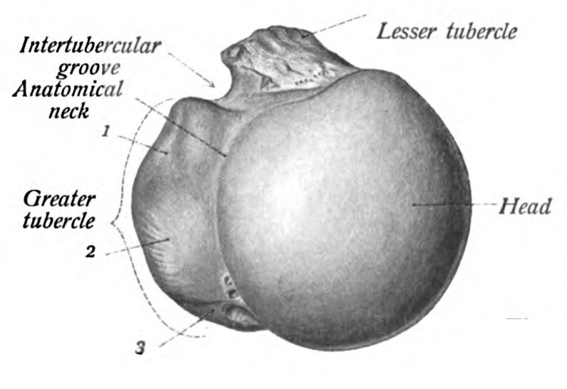 An anatomical illustration from Sobotta's Atlas and Text-book of Human Anatomy 1909